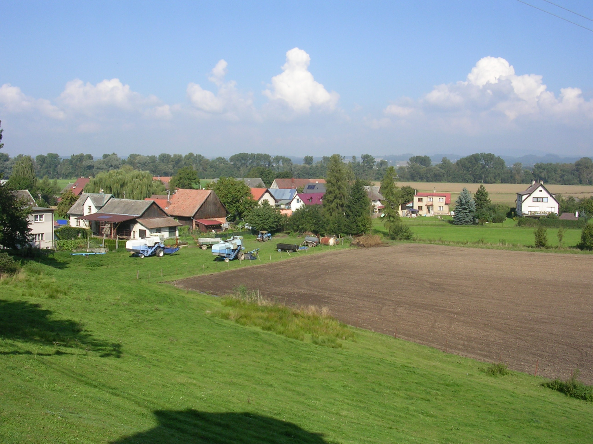 Všeň-Mokrý, Semily District, Liberec Region, the Czech Republic. - Google Maps - Google Earth